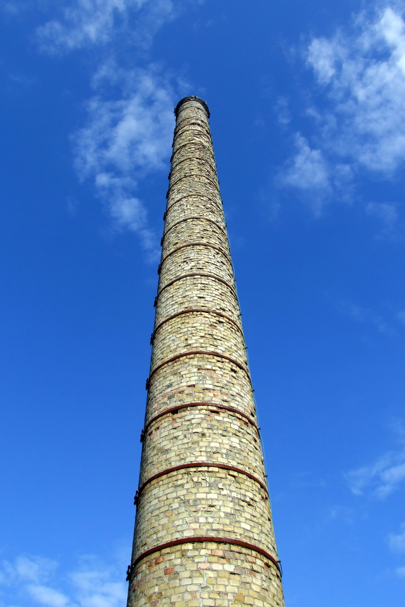 Only the chimney is left of the Santaholma sawmill (1915–1968) in Haukipudas, Finland.